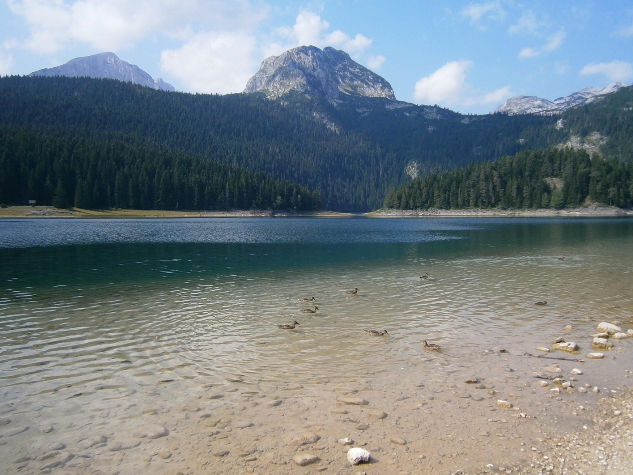 The Big Black Lake on Durmitor, Montenegro